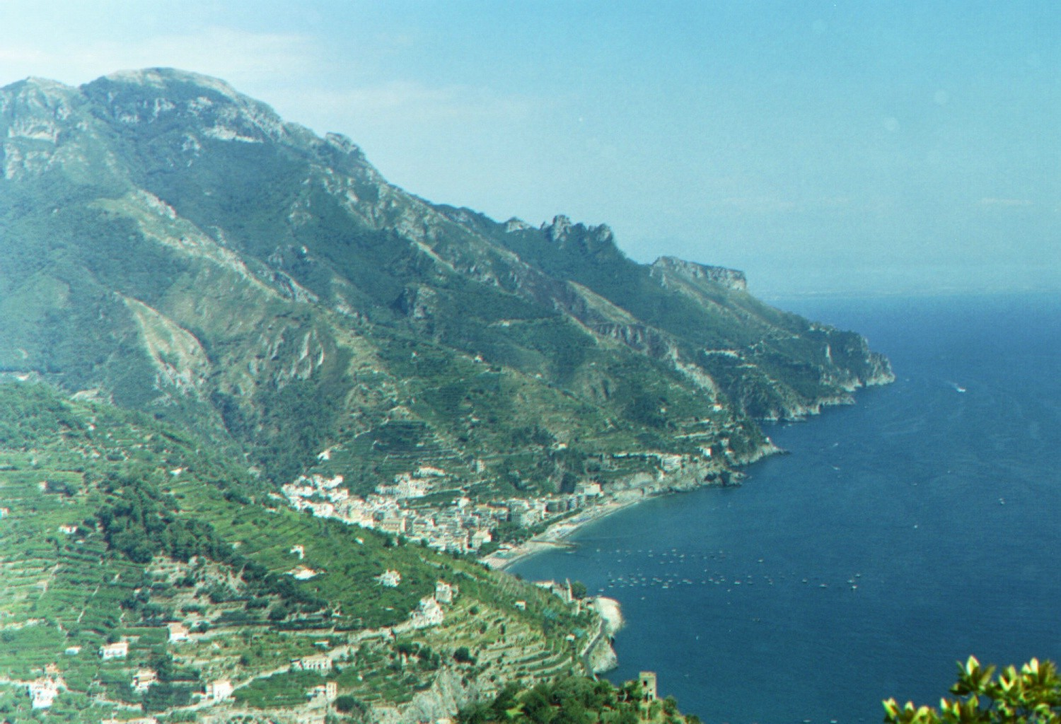 Amalficoast - Maiori view from Ravello.